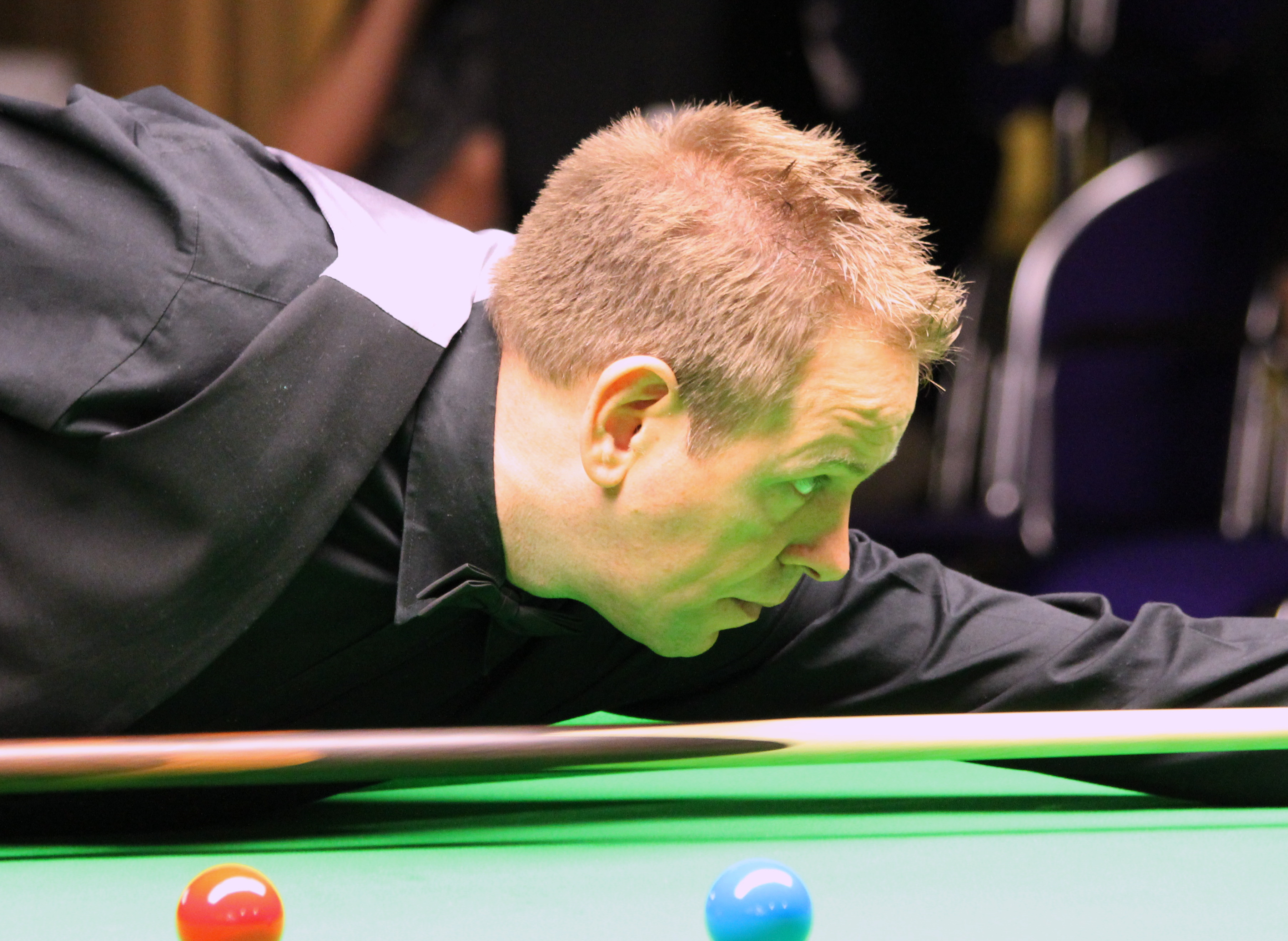 Joe Swail beim Paul Hunter Classic 2012